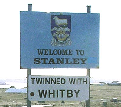 Picture of roadsign at entrance to Port Stanley, Falkland Islands